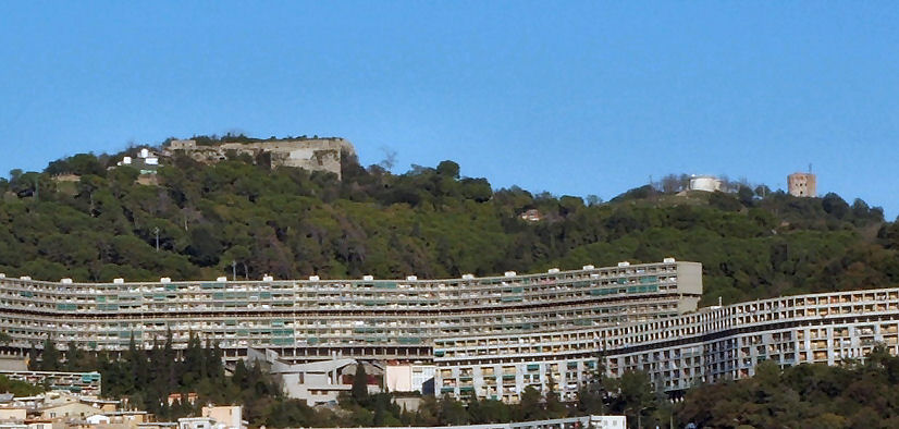 Genoa (Italy), Fort Quezzi and Tower Quezzi